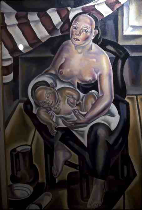 Maternity